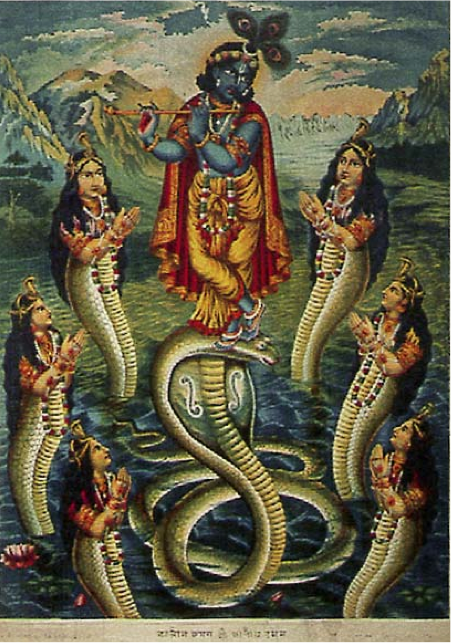 The story of Kalinga Mardhana / Kaliya Daman. Krishna dancing over Kāliyā after subduing him. The wives of Kaliya plead for mercy. Anonymous image; copyright expired in India 60 years after publication (i.e. by 1940).